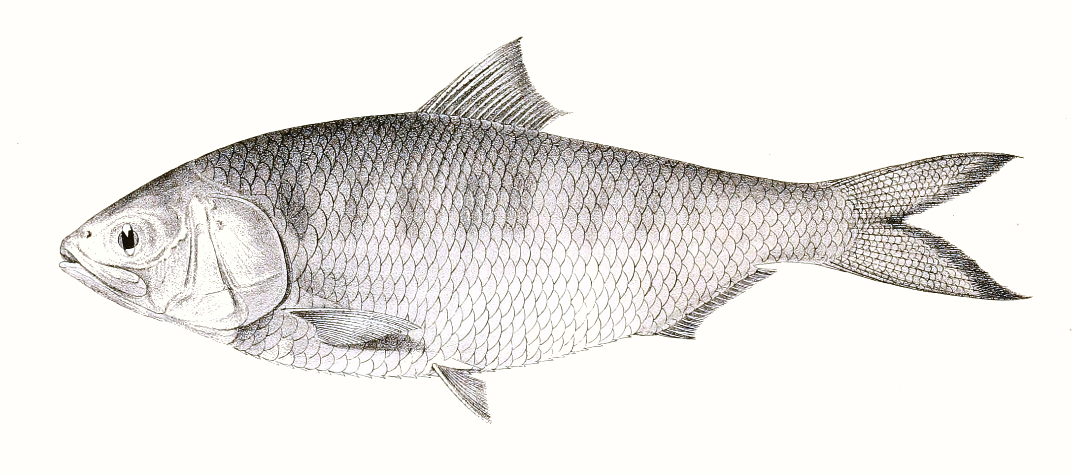 Tenualosa ilisha syn. Clupea ilishaThe species names / identity need verification - original names from plate are included here. The original plates showed the fishes facing right and have been flipped here. Clupea ilisha